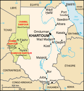 Map of Darfur in french